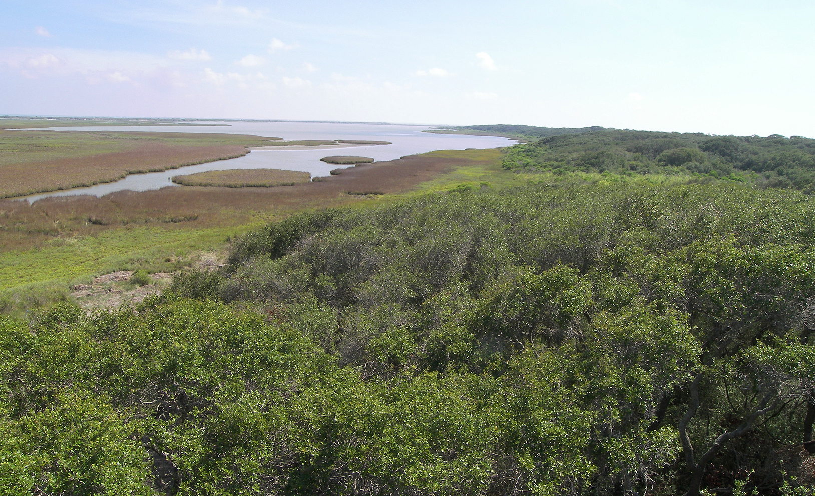 Estuary wetlands in Aransas National Wildlife Refuge, Aransas County, Texas, United States.